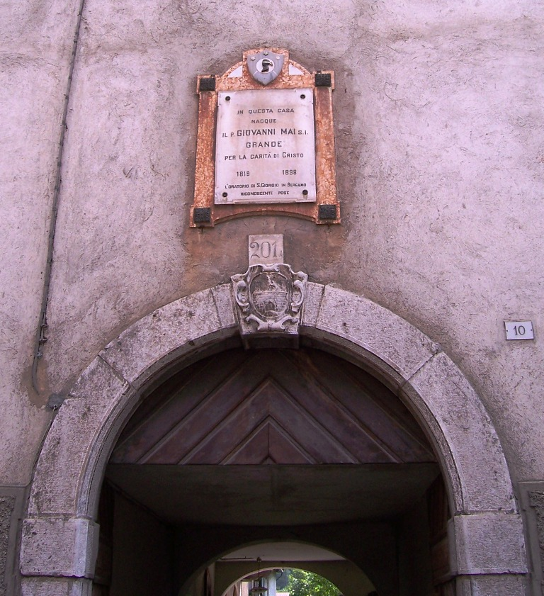 Natal house of Giovanni Maj, Schilpario, Val di Scalve